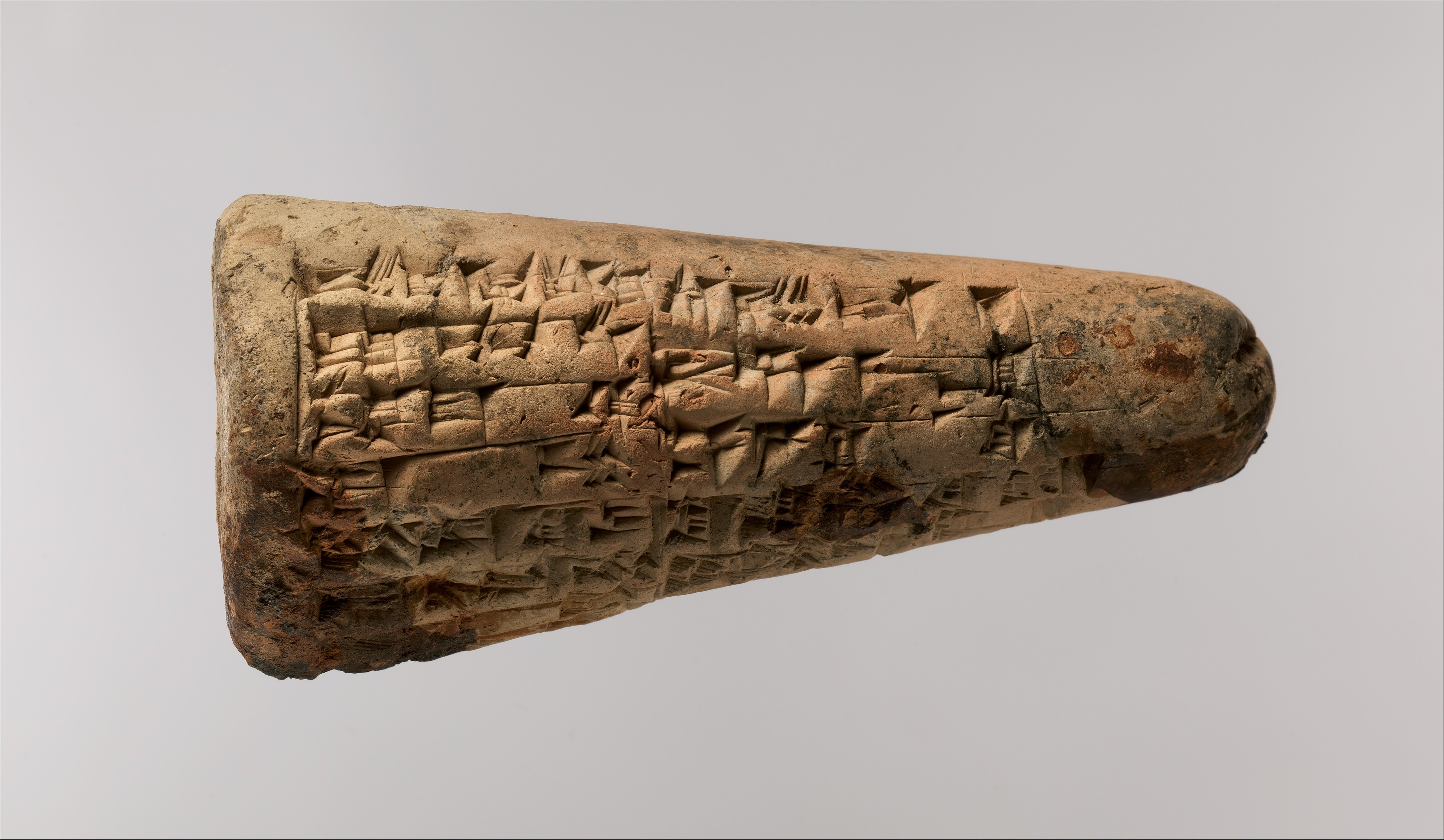 Isin-Larsa; Cuneiform cone; Clay-Tablets-Inscribed